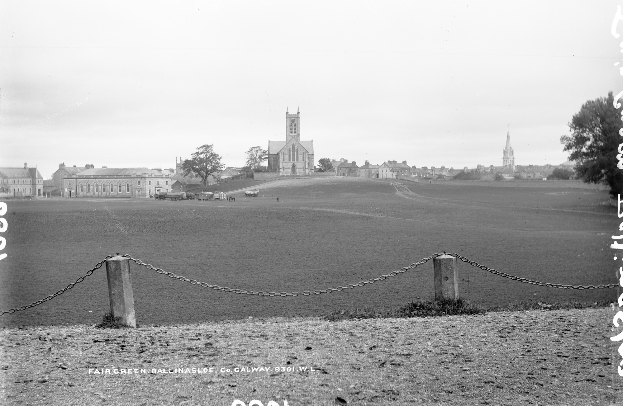 Today we have a magnificent Fair Green in Ballinasloe which if my Irish serves me right translates as "The town of the gatherings (or crowds)". There was certainly plenty of room for such gatherings as might assemble here - and not only do we see evidence of that in the wagons and traction engine here, but there's tents on the green in the 2005 OSI and 2011 Streetview that [/photos/91549360@N03/ O Mac] and [/photos/gnmcauley/ Niall McAuley] shared with us. We don't yet have a date for when our wagons were on the green, but the consensus seems to be that this was late 19th century or perhaps very very early 20th century. Thanks also to [/photos/beachcomberaustralia/ Beachcomber] for the 19th century contemporary descriptions of fairs on the green... Photographer: Robert French Collection: Lawrence Photograph Collection Date: between ca. 1865-1914 NLI Ref: L_CAB_08301 You can also view this image, and many thousands of others, on the NLI’s catalogue at